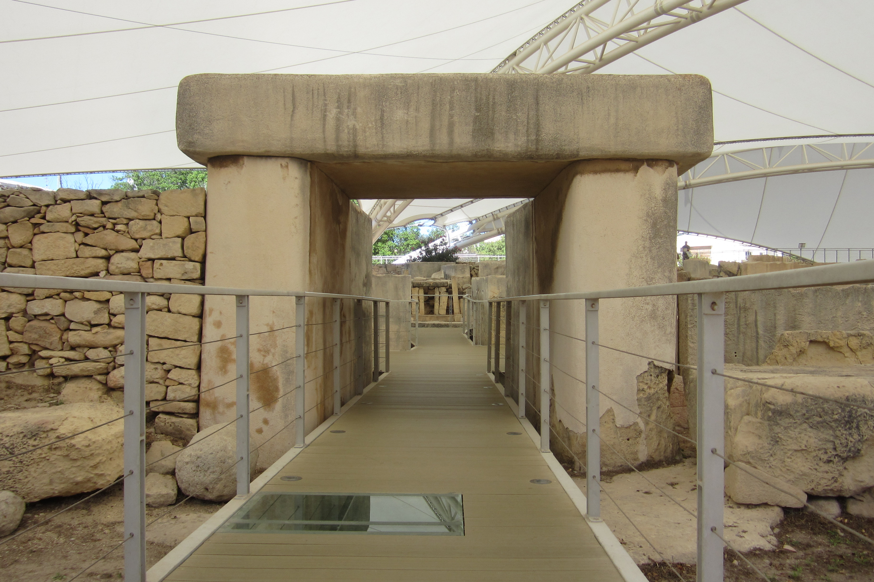 View into the South Temple as part of the megalithic Tarxien Temples in Tarxien, Malta, through the reconstructed trilithon doorway with the central passageway behind and an elevated niche at the back. Most of the South Temple's megalithic walls have survived to just above ground level until today. Photographed as part of Wiki Loves Monuments 2016 in Malta.